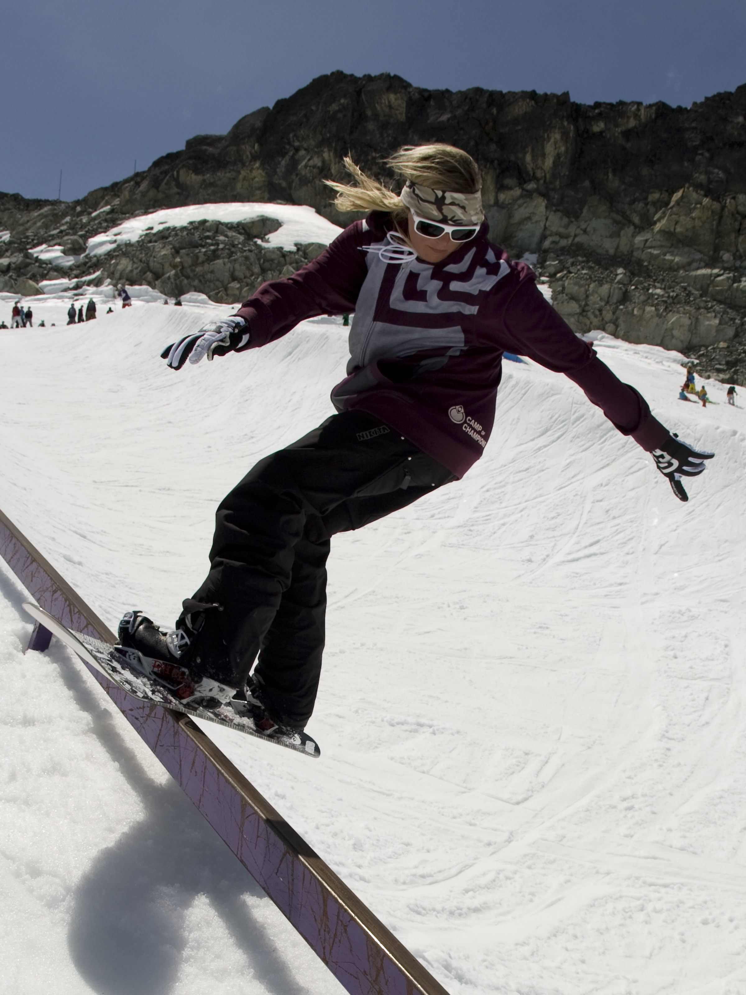 Elena Hight in British Columbia, Canada